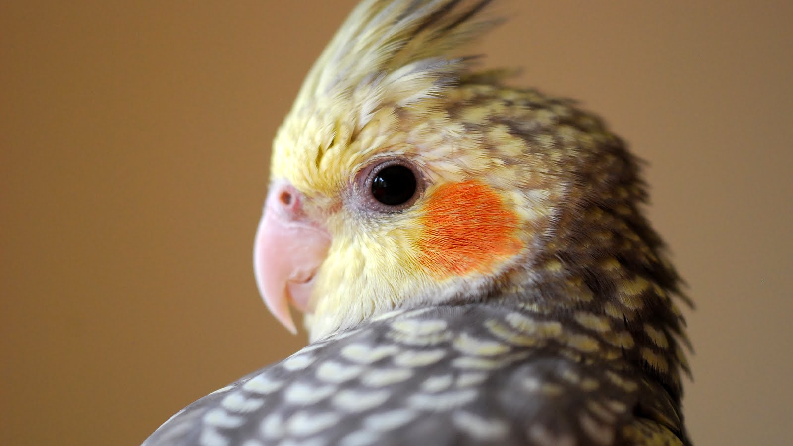 'Eddie' our 4 month old DNA sexed male cockatiel with pearl mutation. After his first moult at 6-12 months, he will lose the pearl markings and look like a standard grey. Only females keep the pearl pattern.